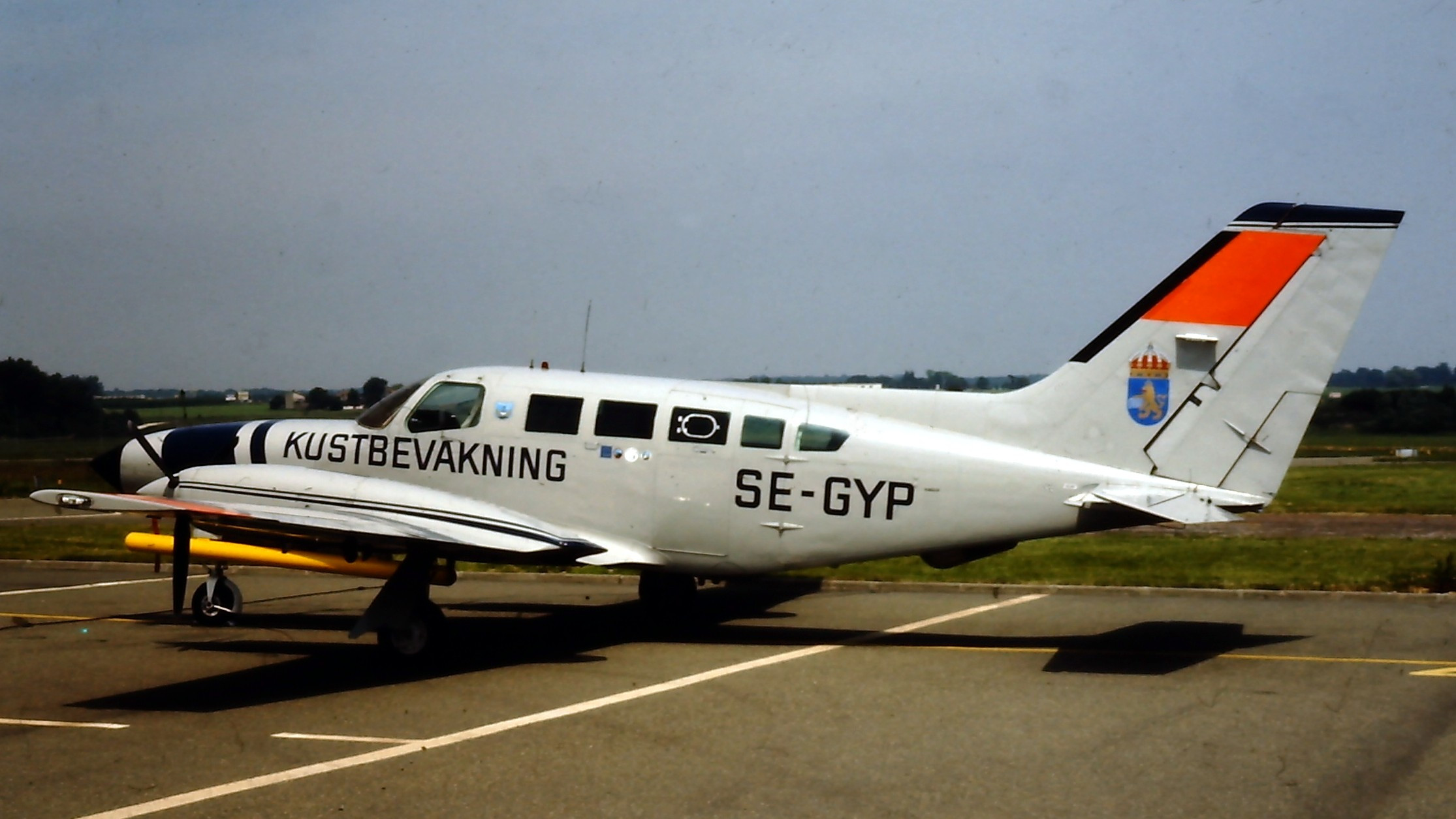 Cessna 402C registered SE-GYP of the Swedish Coast Guard at Toussus-le-Noble Airport, France.